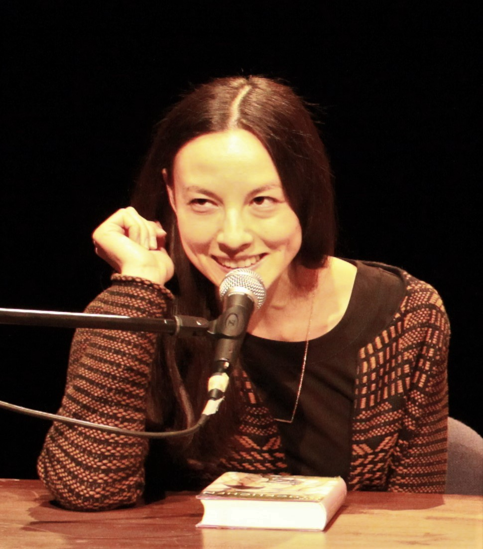 Milena Karas at the English Theatre Berlin, March 2015